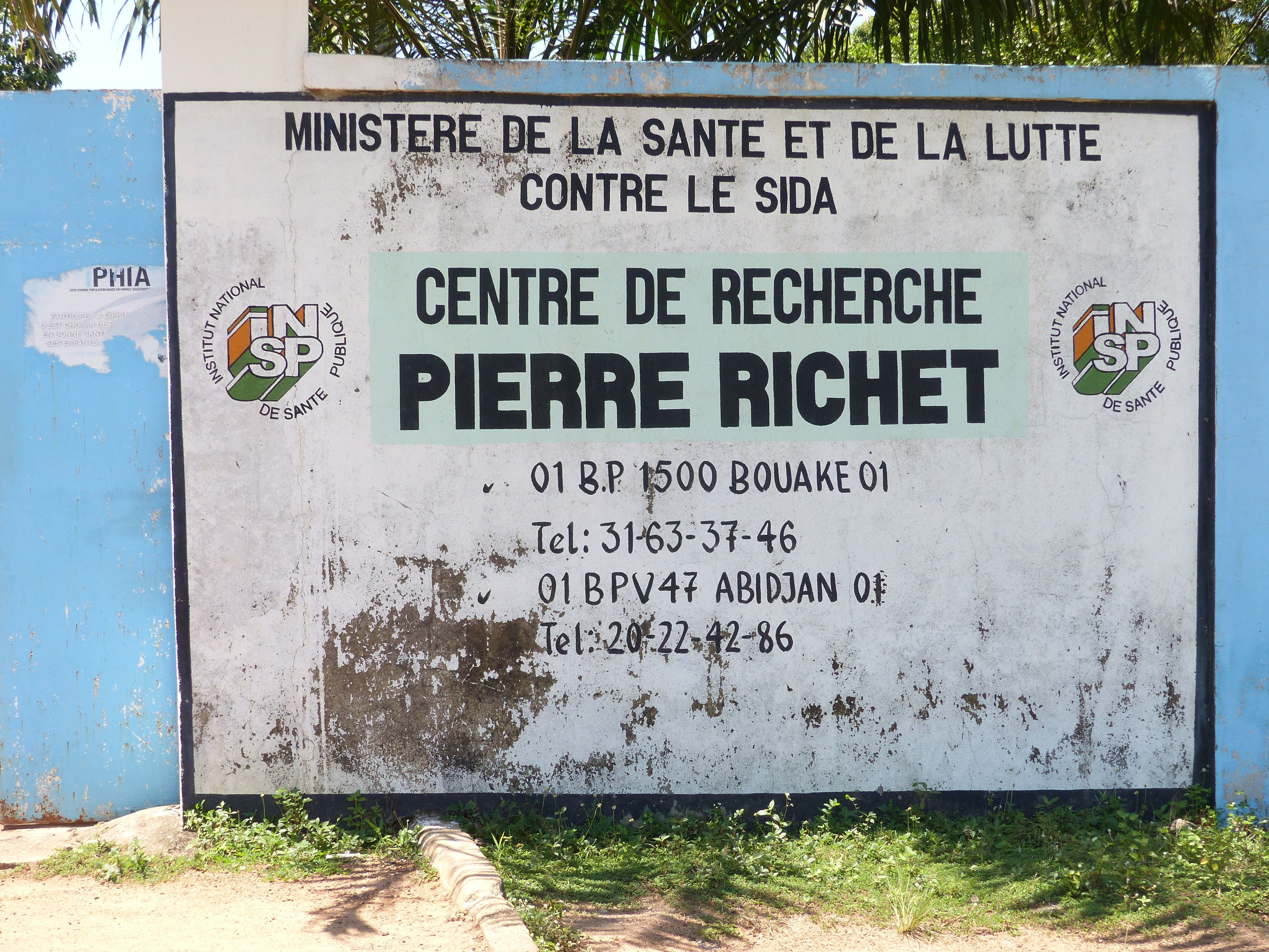 Facade wall of the Pierre Richet Institute (Bouaké, Ivory Coast)